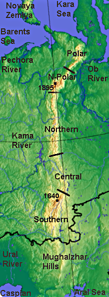 Topographic map of the Ural Mountains, and the Ural Region, in central Russia. Within each and defining the boundary of eastern North European Russia, and Western Siberia in northwestern Central Asia.